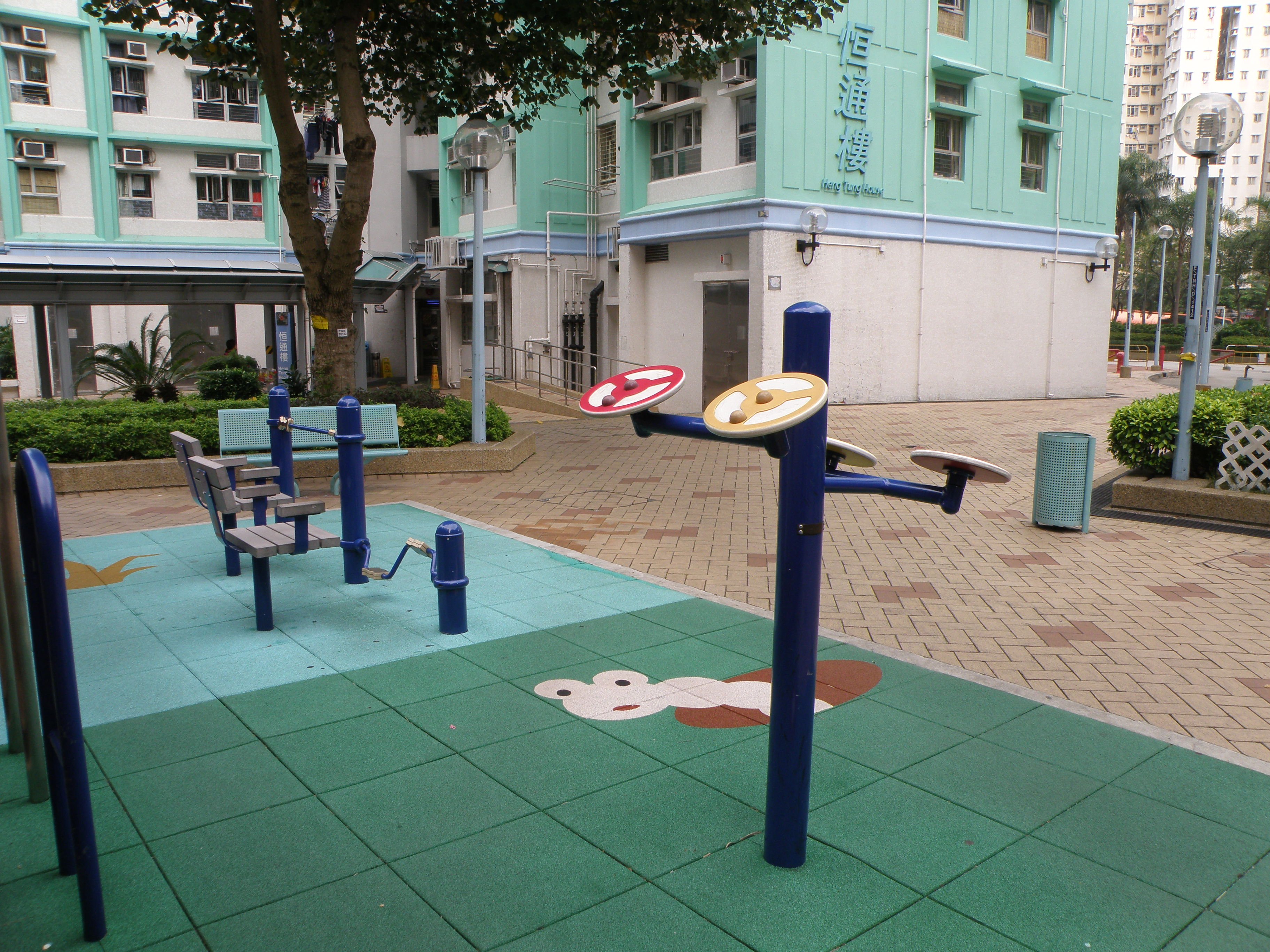 Tin Heng Estate Playground, Tin Shui Wai, Hong Kong.